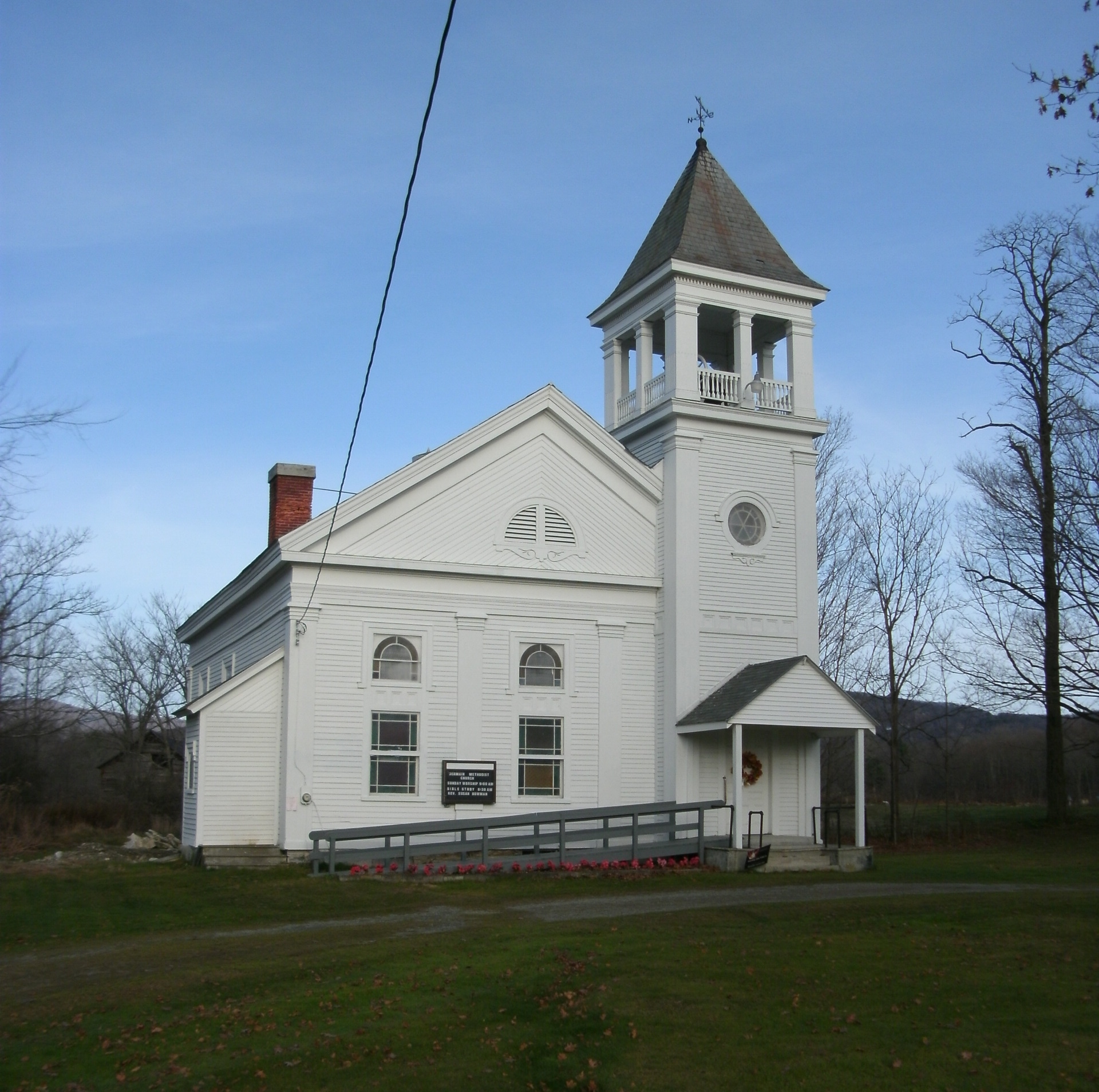 GE DIGITAL CAMERA White Creek, New York